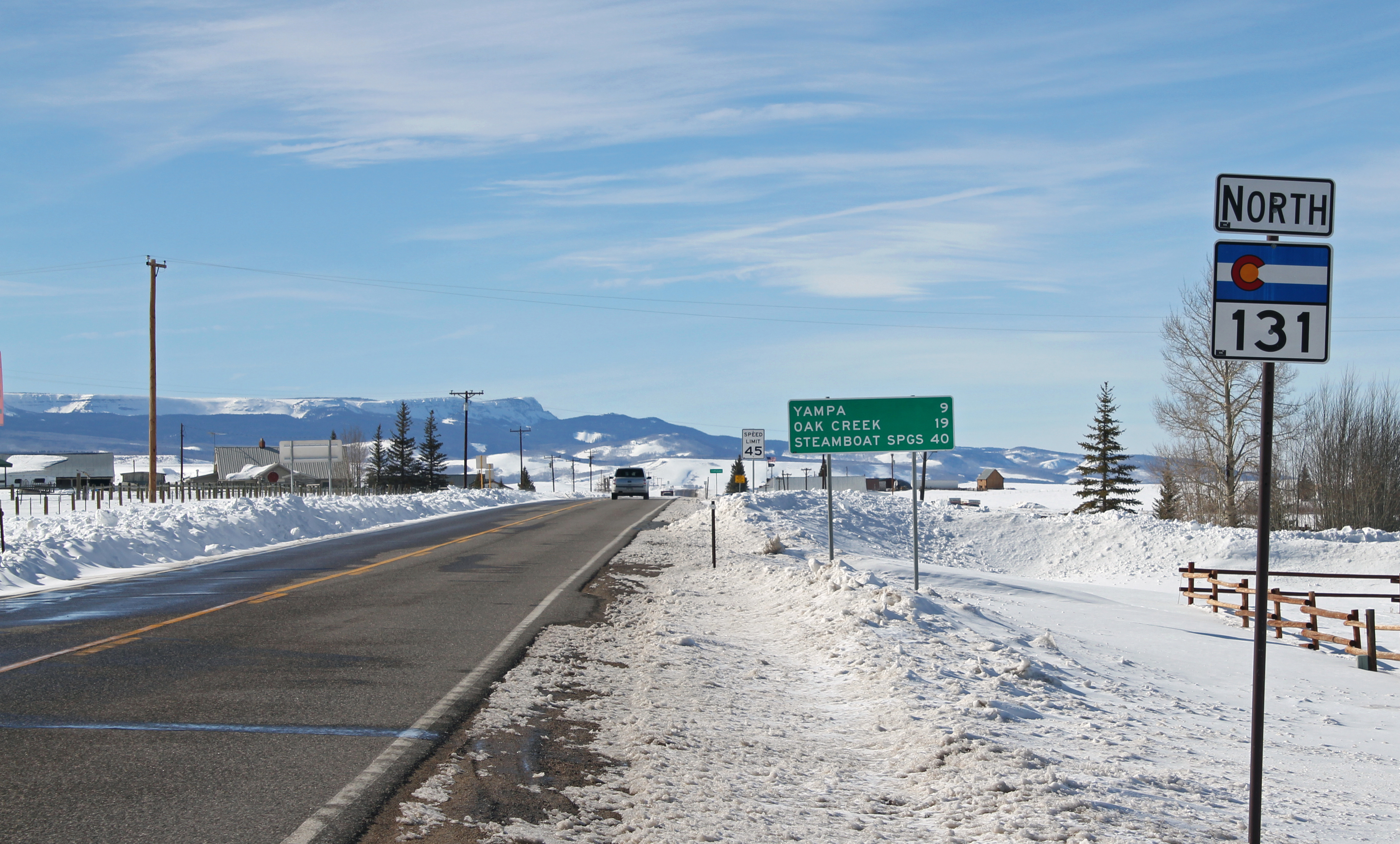 Colorado State Highway 131. Picture taken in Toponas, Colorado.